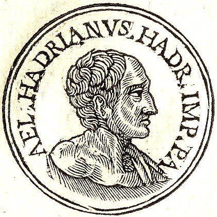 Publius Aelius Hadrianus Afer was a distinct and wealthy Roman Senator and Soldier who lived in the Roman Empire during the 1st century.